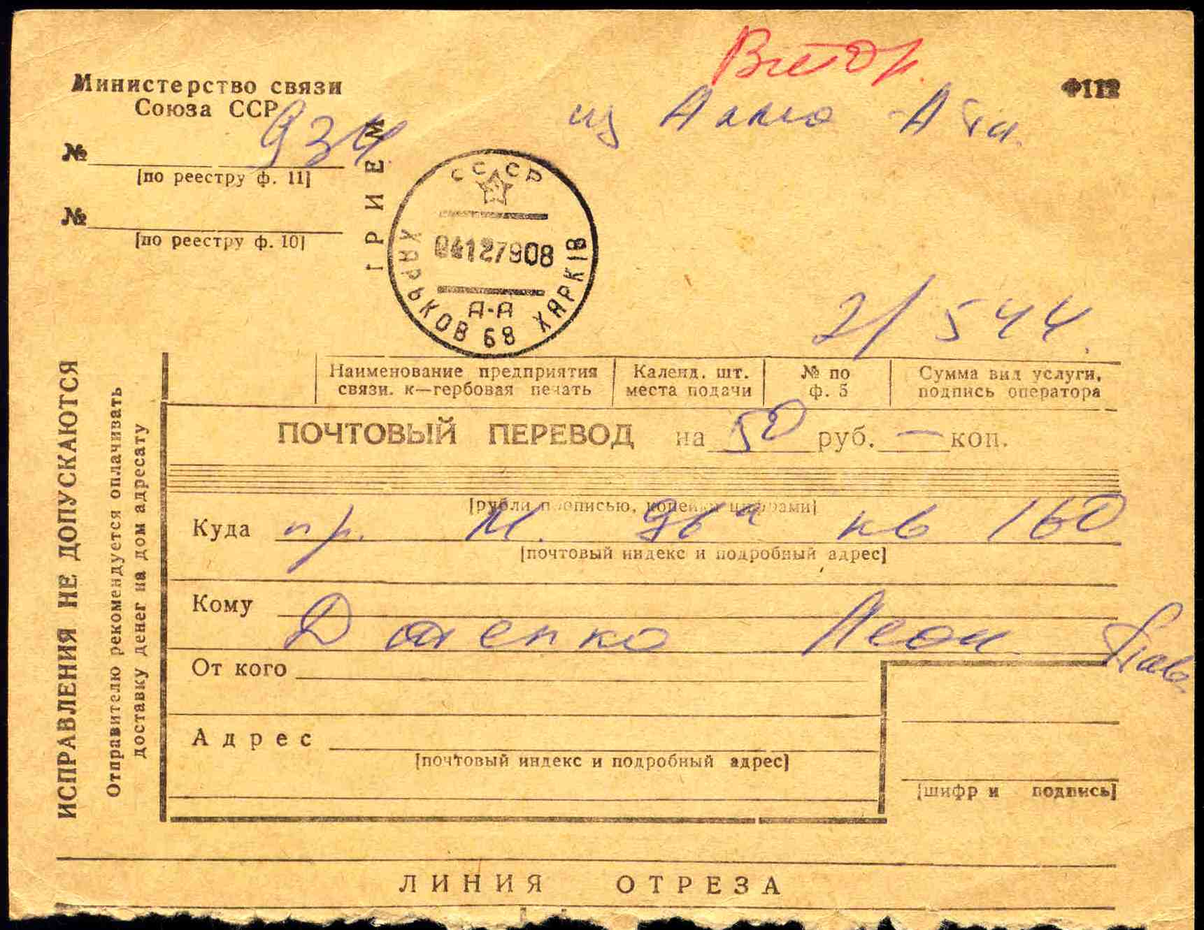 USSR Postal order postmarked Kharkov-68 December 4, 1979 (face), Form 112.